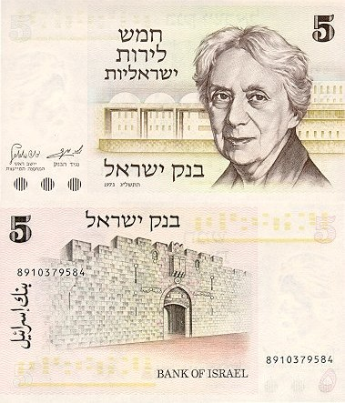 Obverse & Reverse side of a 5 lirot bill, paper.